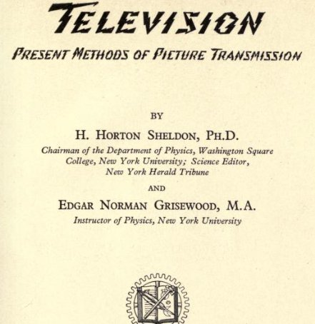 "Television; present methods of picture transmission" book by H.H. Sheldon